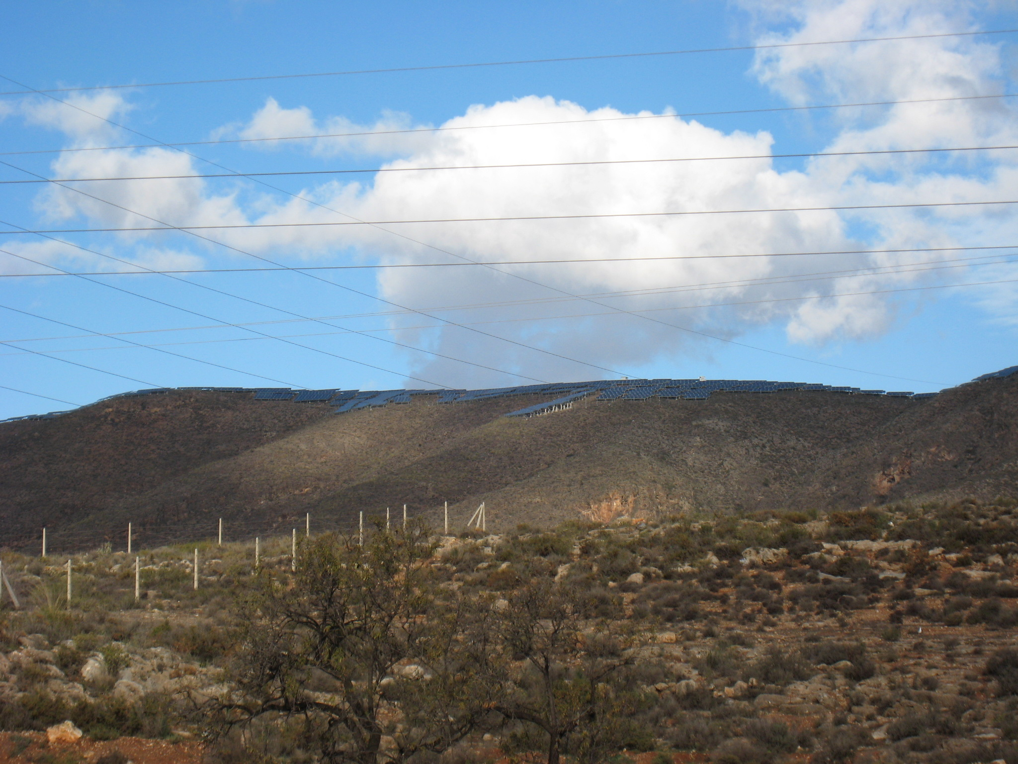 Solar panels at Berja (Almeria, Spain), Montivel mount